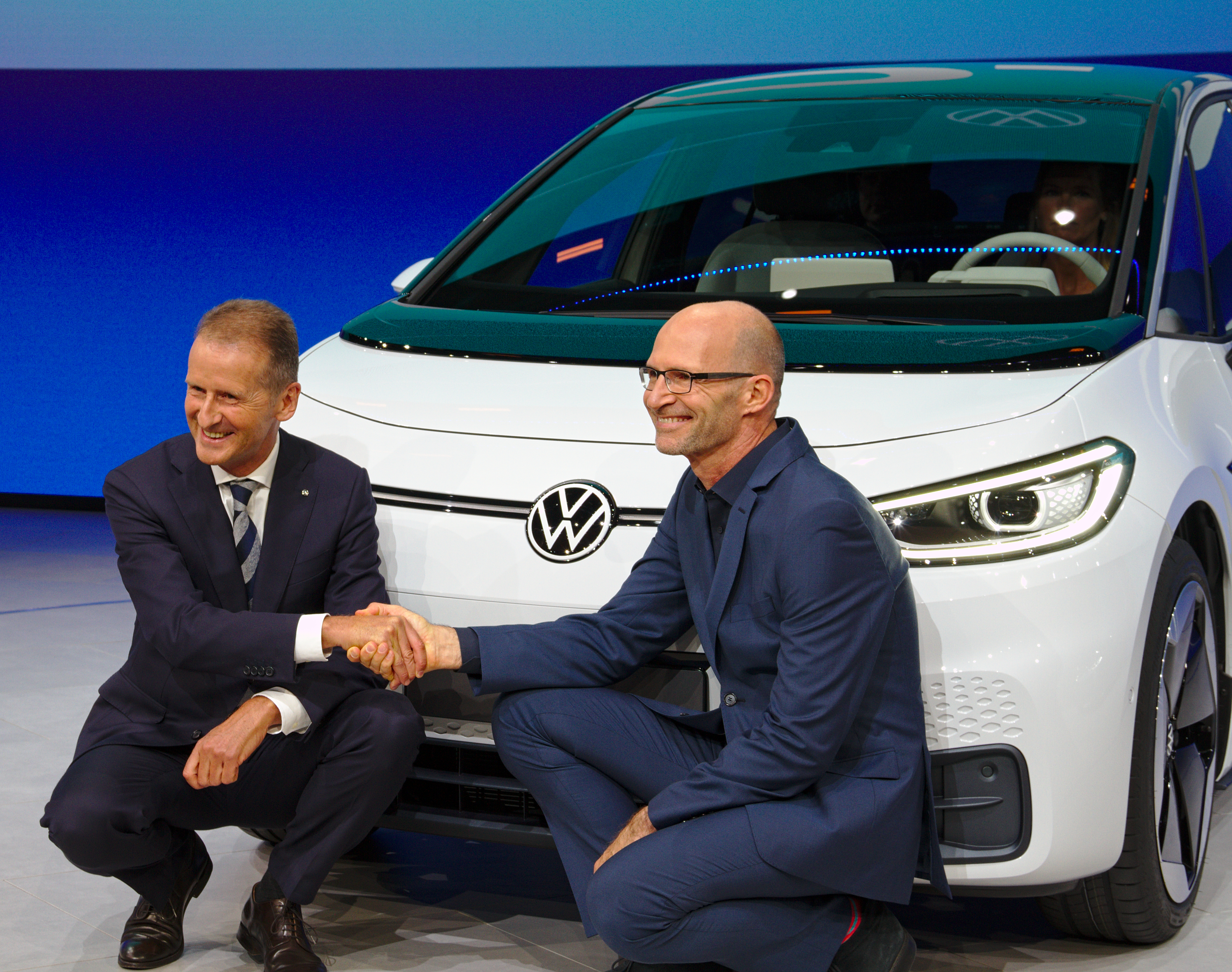 Volkswagen_ID.3 at IAA 2019